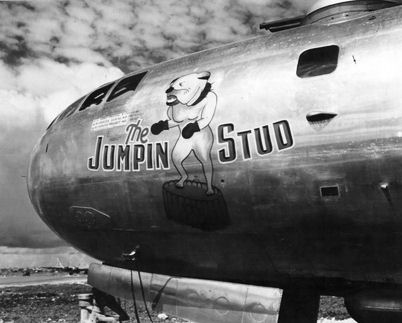 Boeing B-29 Superfortress "The Jumpin Stud" Bell-Atlanta B-29-15-BA Superfortress s/n 42-63414, 871st BS, 497th BG, 20th AF. Ditched on July 3, 1945, Voigt crew survived.